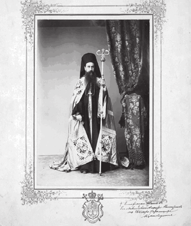 Epiphanius Shanov